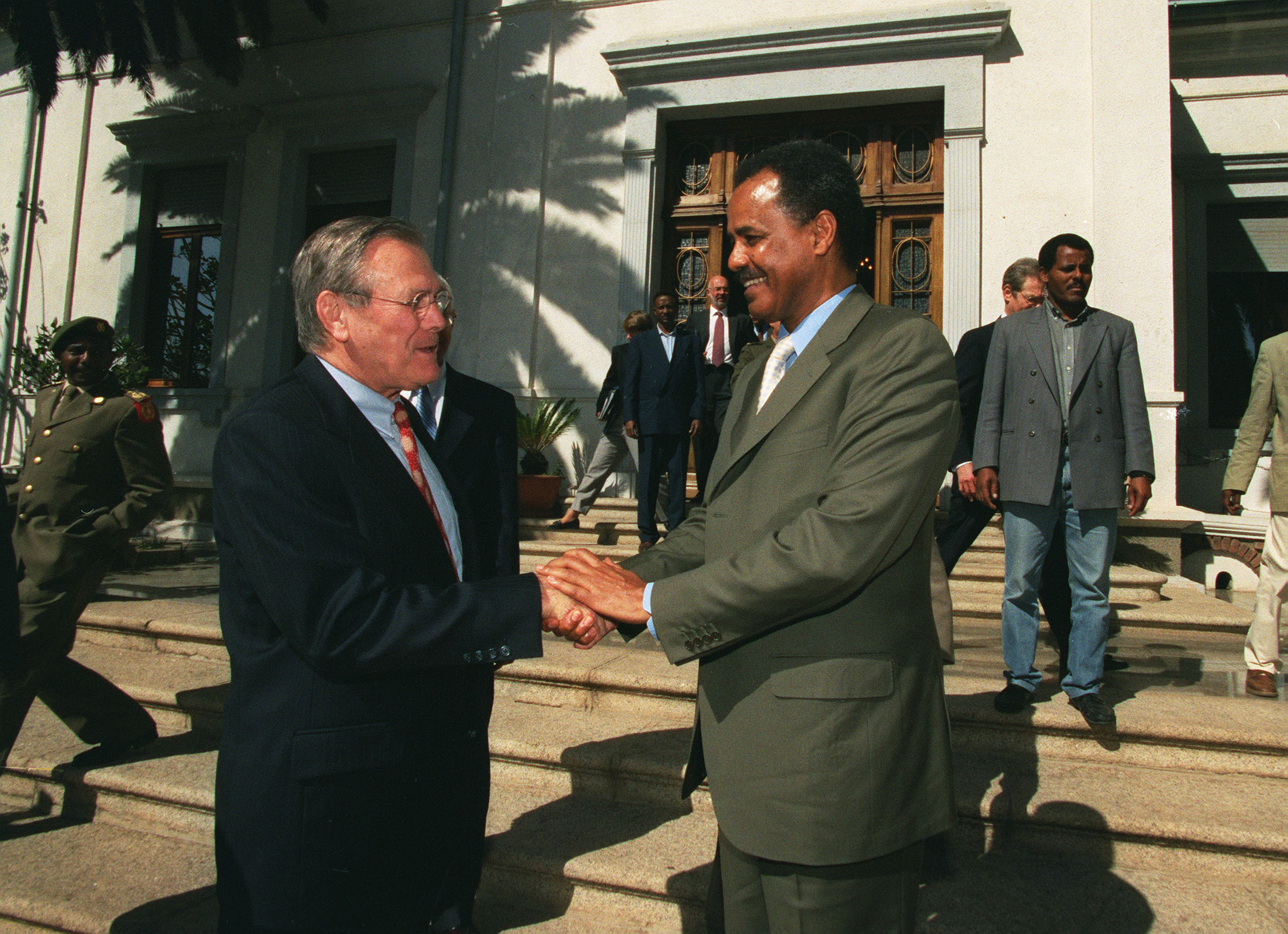 Secretary of Defense Donald H. Rumsfeld is bid farewell by President Isaias Afewerki as he departs Denden Club, Asmara, Eritrea, on Dec. 10, 2002. Rumsfeld traveled to Eritrea to meet with leaders concerning defense issues and the war on terrorism.